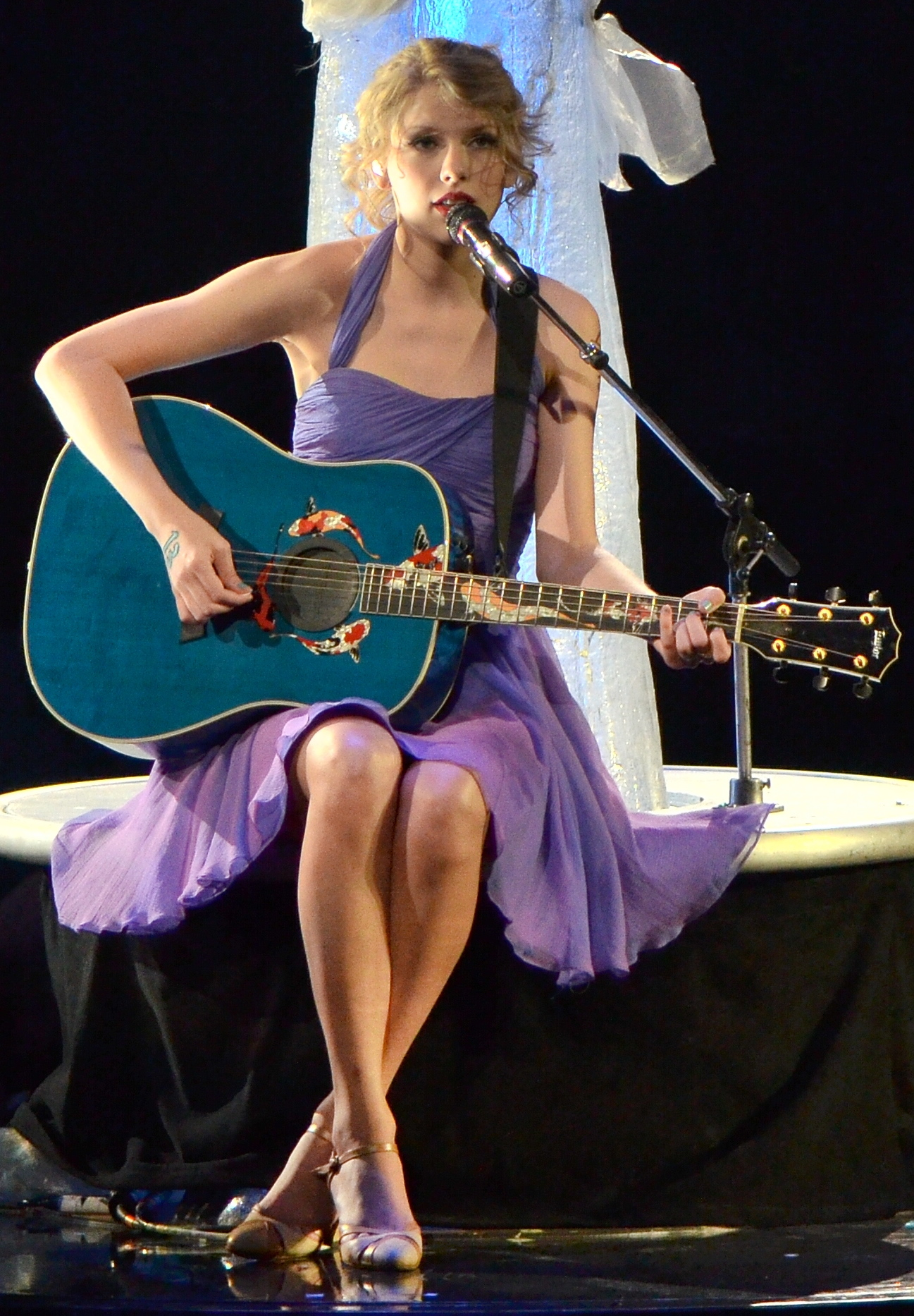 Taylor Swift performing live on Speak Now tour in July 2011